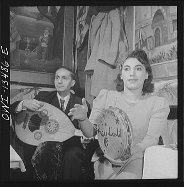 New York, New York. Orchestra in a Turkish nightclub on Allen Street. The girl plays a tambourine between dances